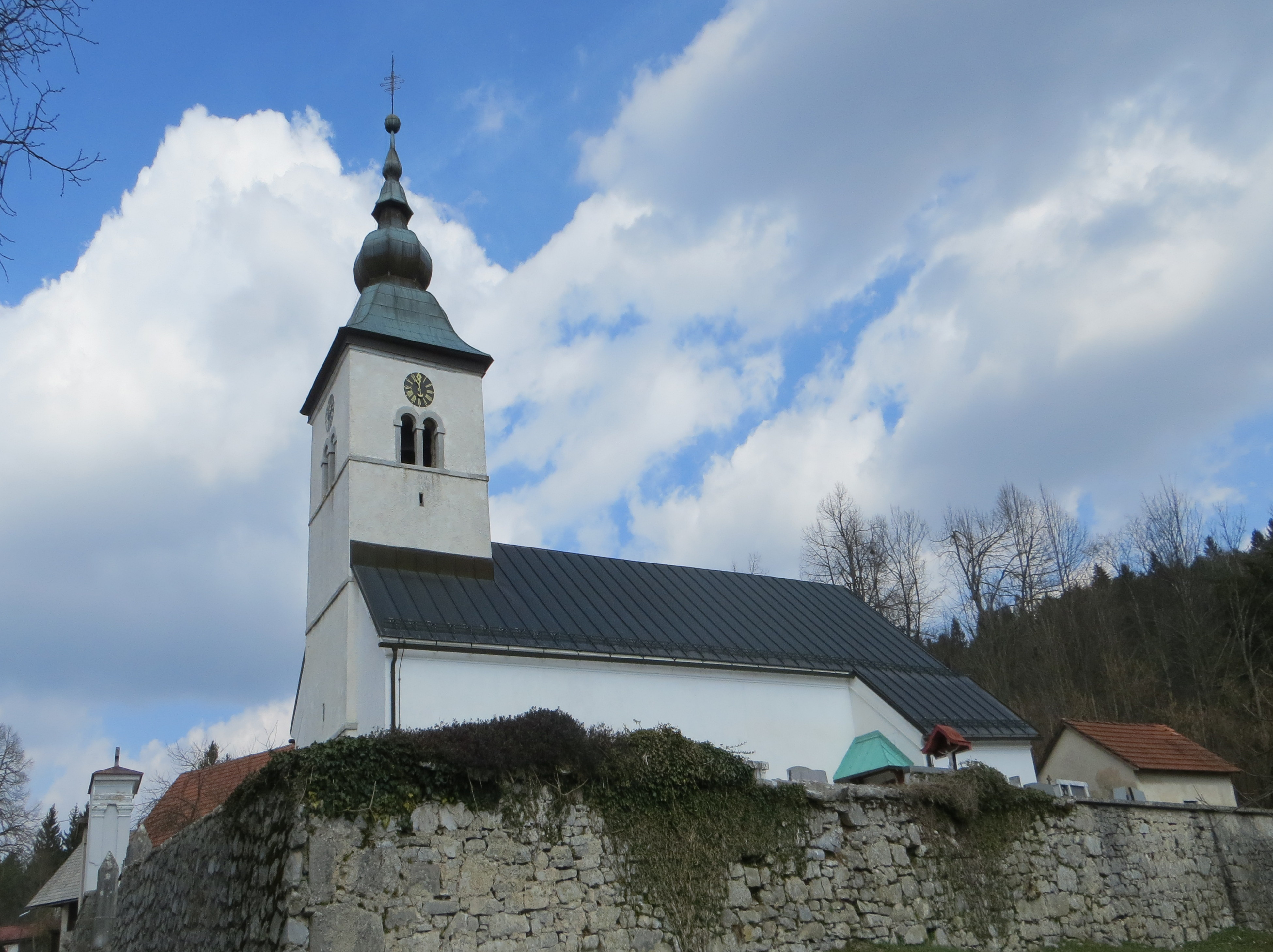 Assumption Church in Bezuljak, Municipality of Cerknica, Slovenia